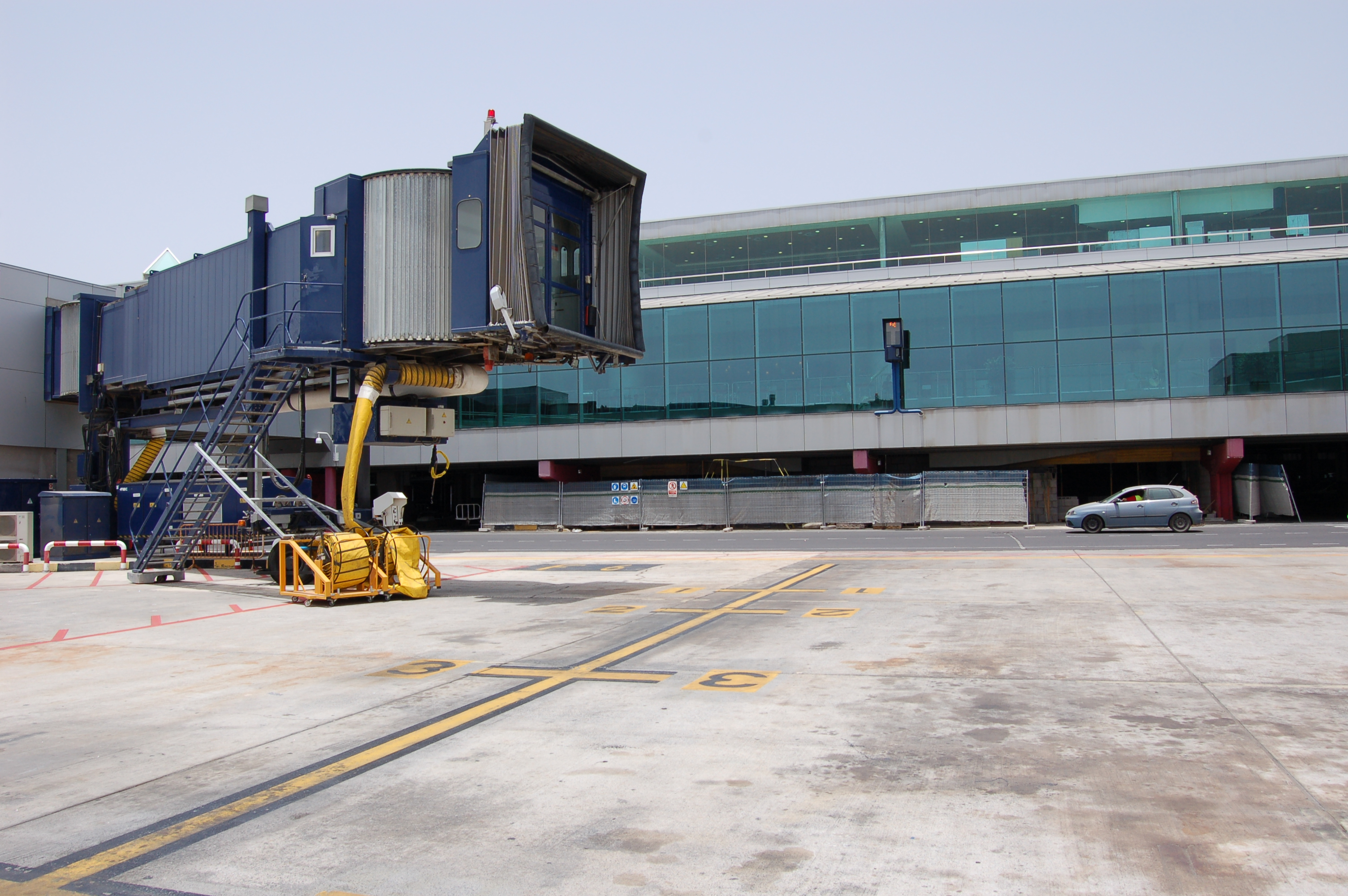 Finger at GCTS/TFS